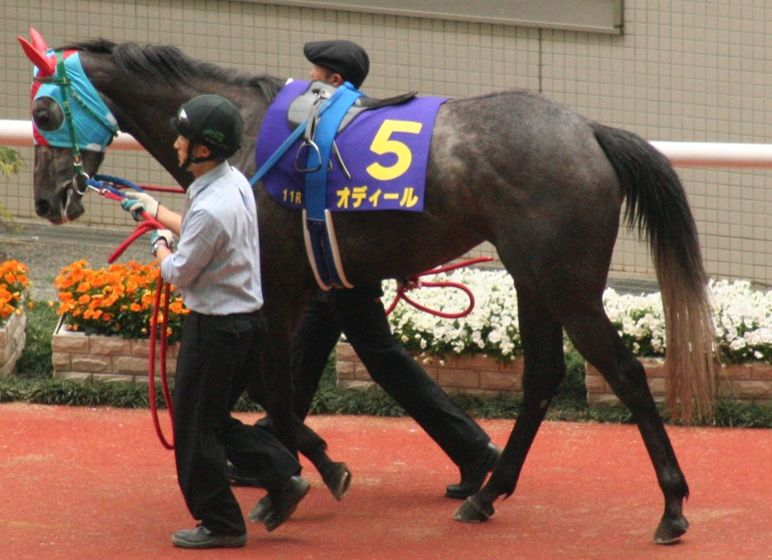 Odile